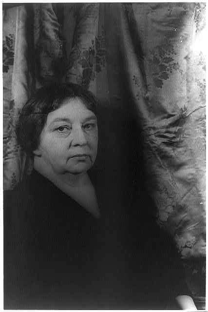 Sigrid Undset, Norwegian novelist awarded the Nobel Prize in Literature in 1928Sigrid Undset, March 1927